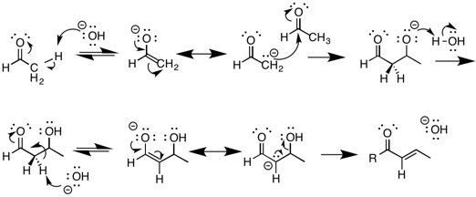 This is an example of an aldol reaction, which is a type of reaction that undergoes an E1cB-elimination mechanism.